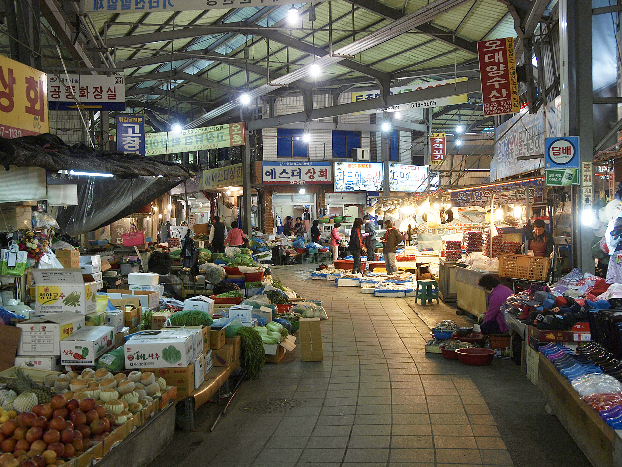 Korean traditional market at Jeongeup, Jeollabuk-do, South-Korea